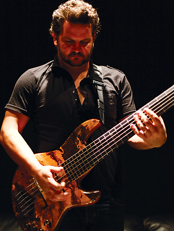 Felipe Andreoli in 2013